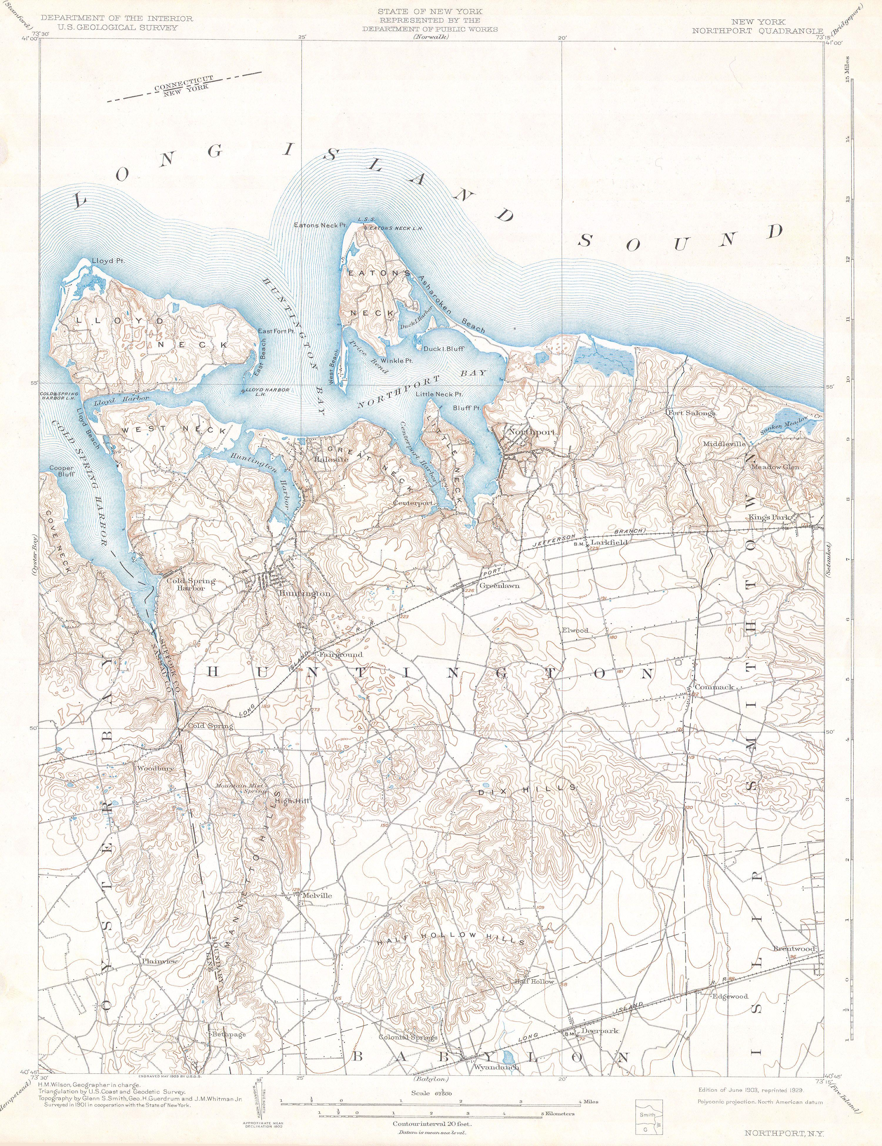 This beautiful and fascinating topographical chart depicts Long Island, New York from Oyster Bay through Huntington and Northport to Smithtown, Islip, and Babylon. Highly detailed with important buildings, and trains and rail lines. A rare and stunning geological survey of this highly populated region. From the 1928 reissue of the Feb. 1900 charts.